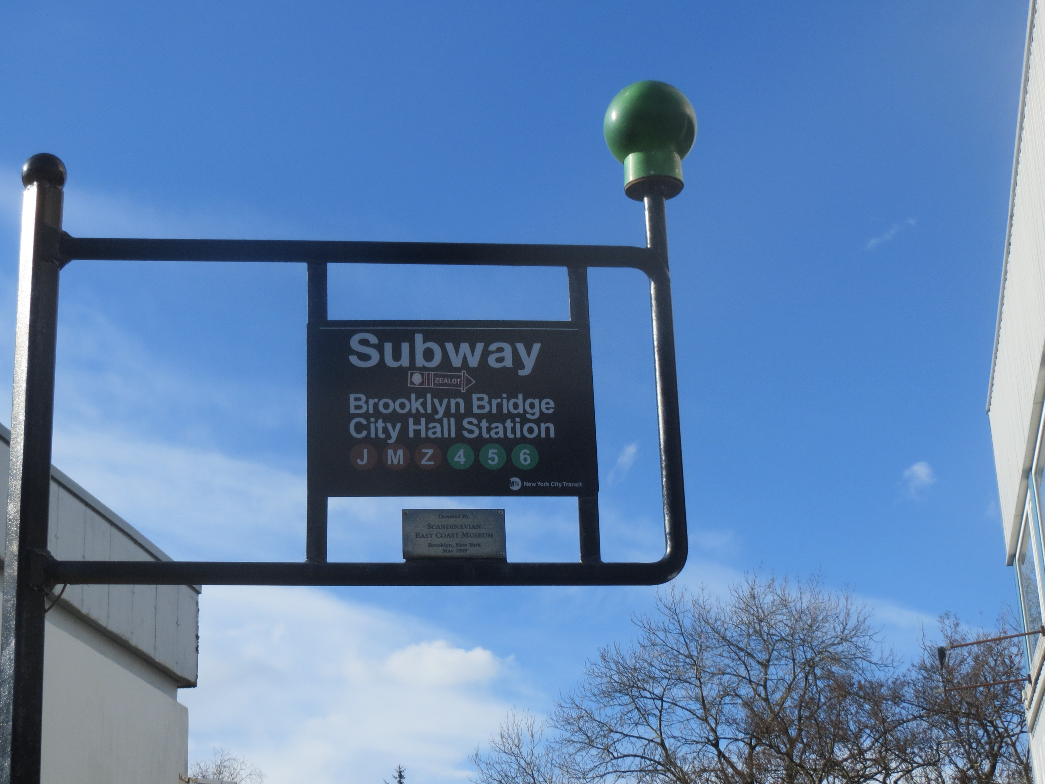 Sign in Vanse, Norway